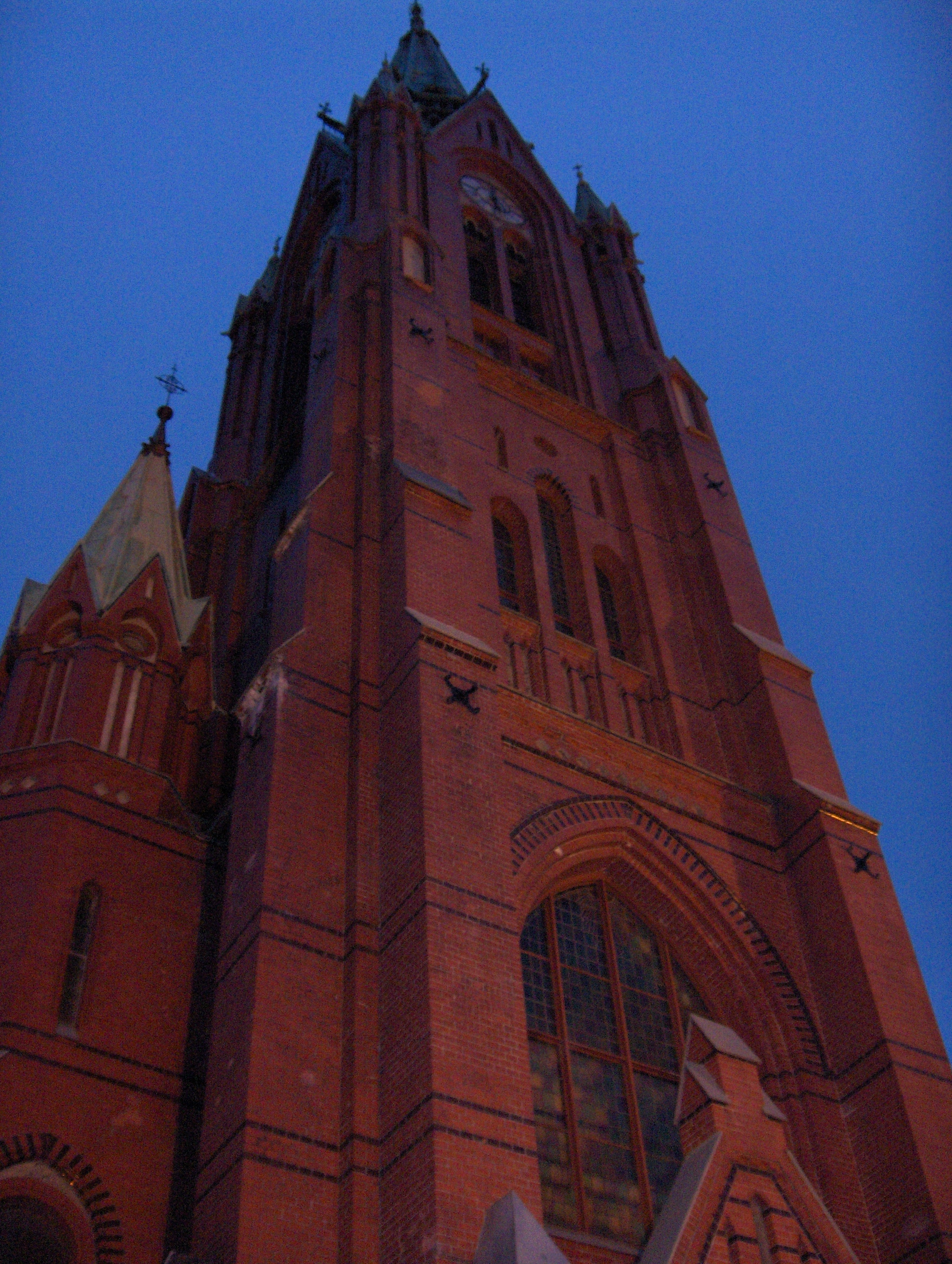 Johanneskirken, a church of Bergen. Pic shot by myself, all rights released, public domain Saty 01:55, 10 June 2006 (UTC)